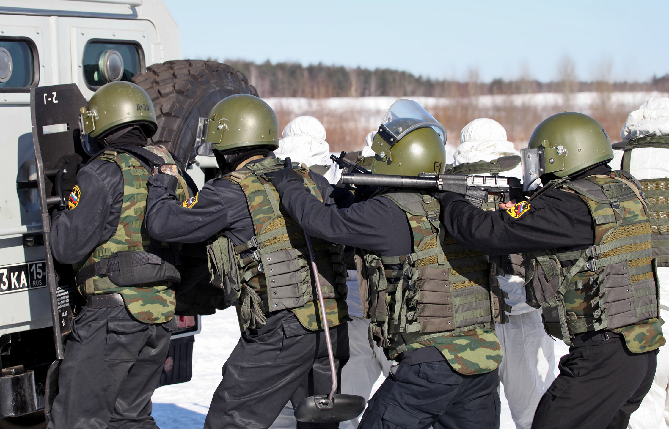 33 OSN Peresvet